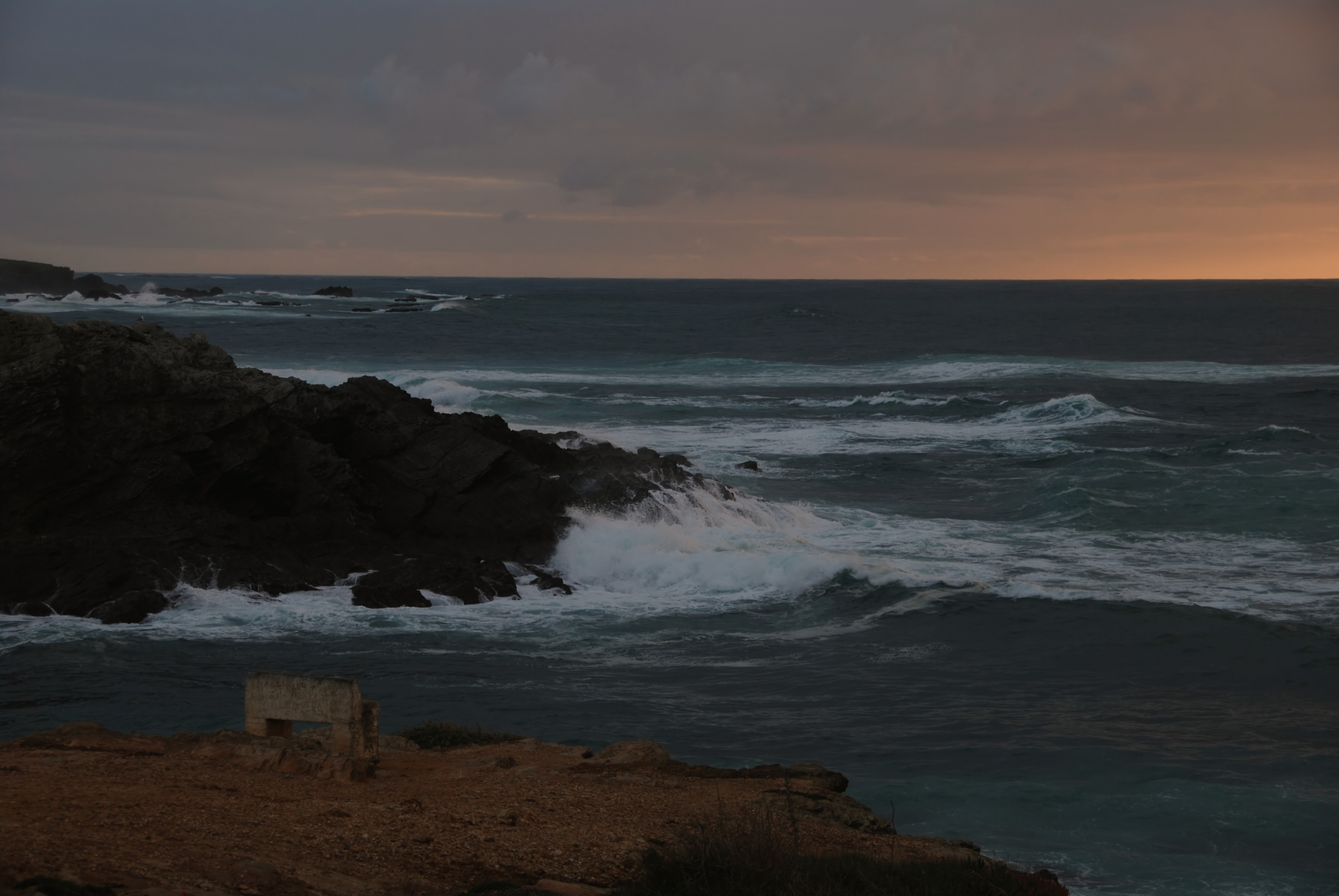 The sea in Porto Covo when night comes.